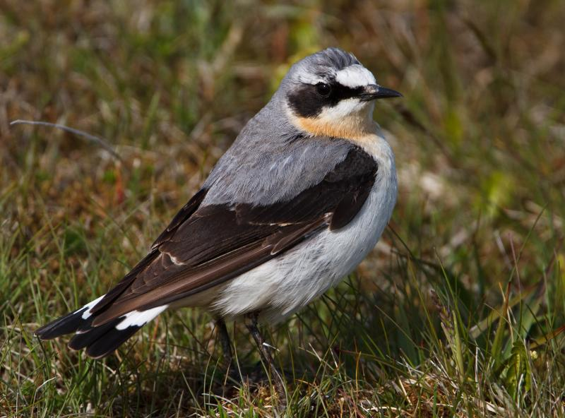 A Northern Wheatear in Iceland.